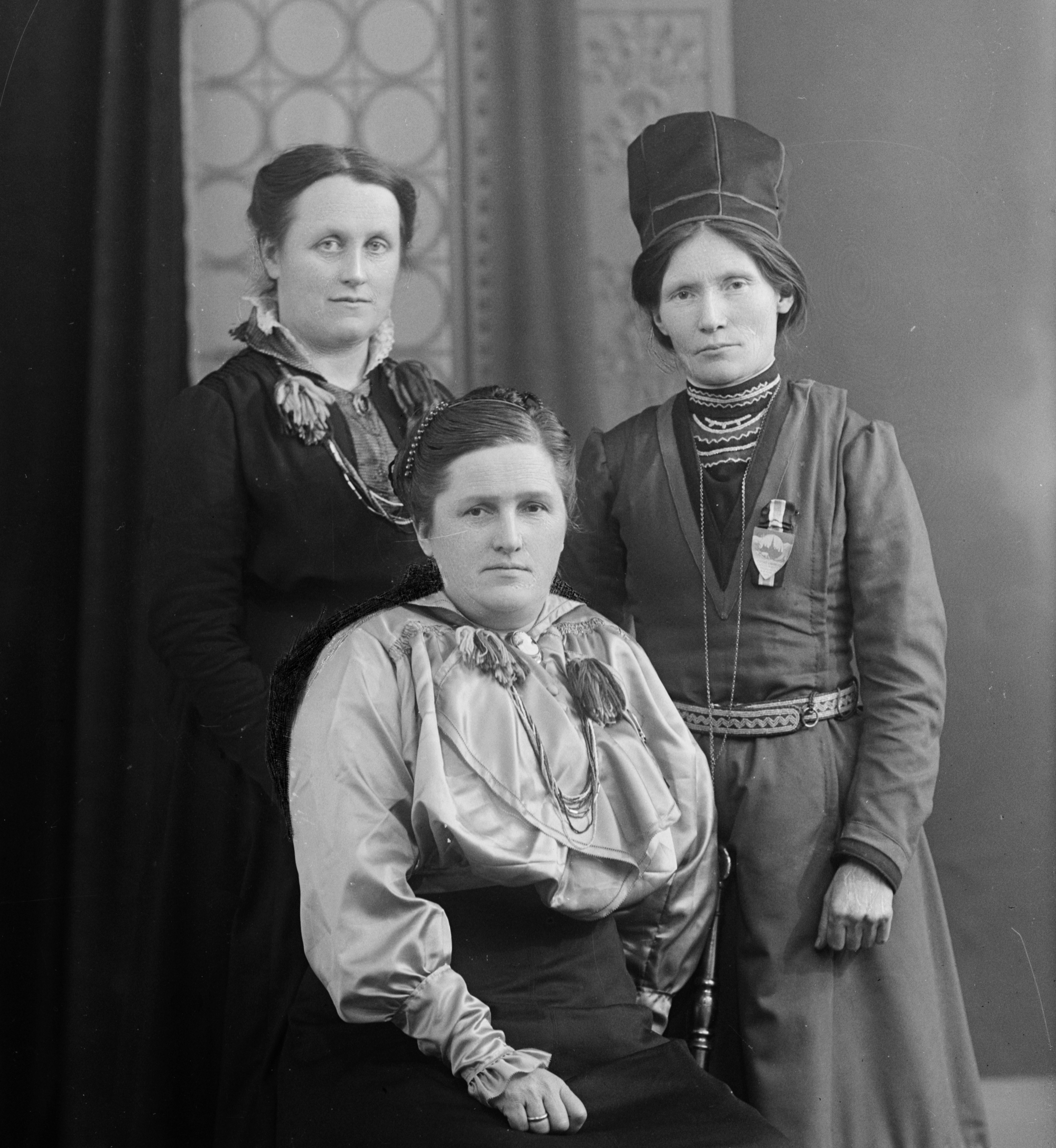 Left to right: Ellen Lie (journalist); Anna Löfwander Jarwson (restaurateur); Elsa Laula Renberg (Sami politician)